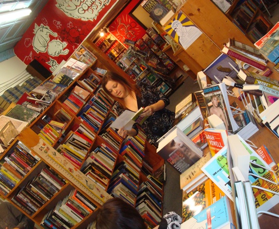 Shawna Kenney